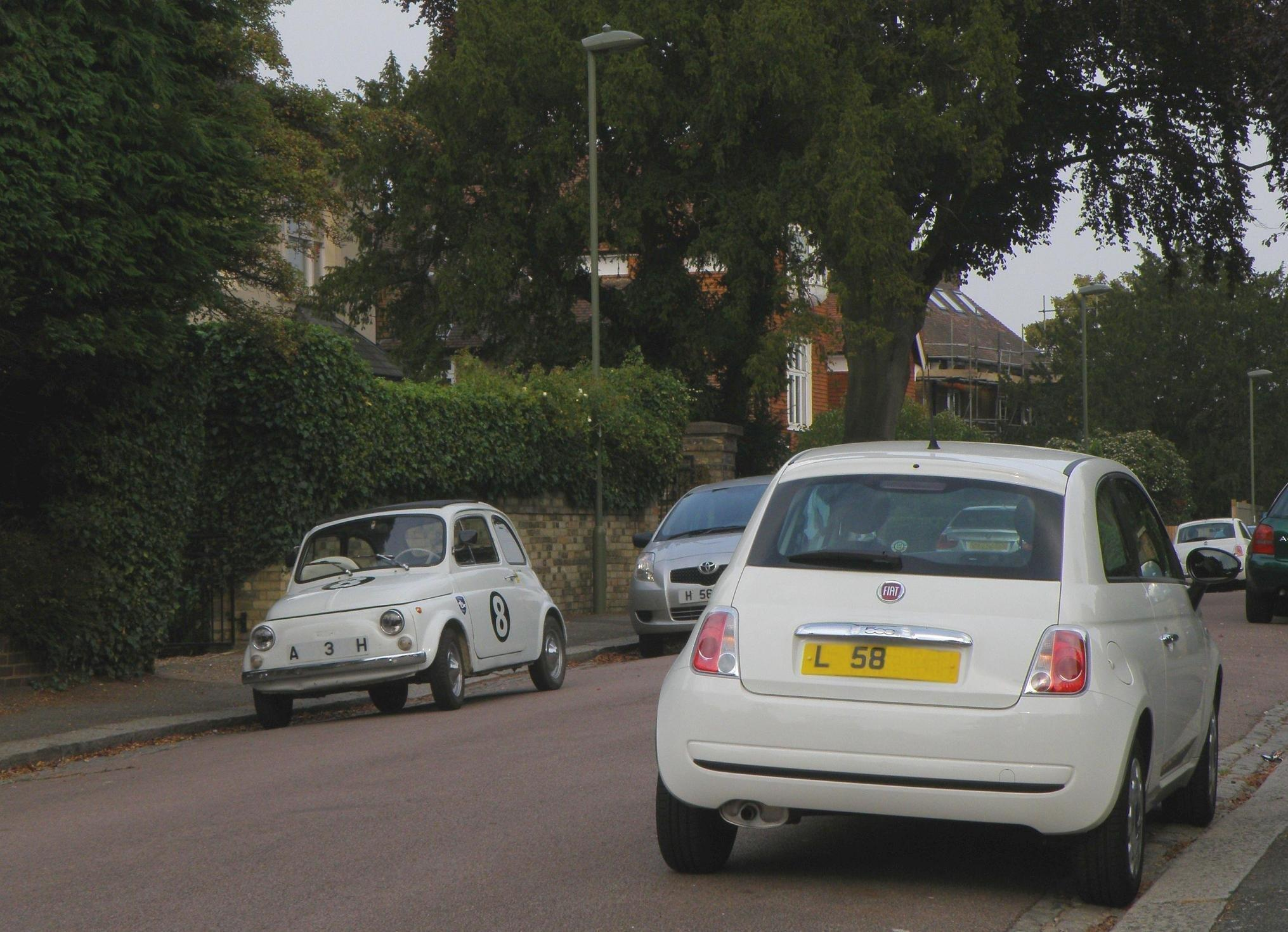 Fiat 500 - two generations - years apart.